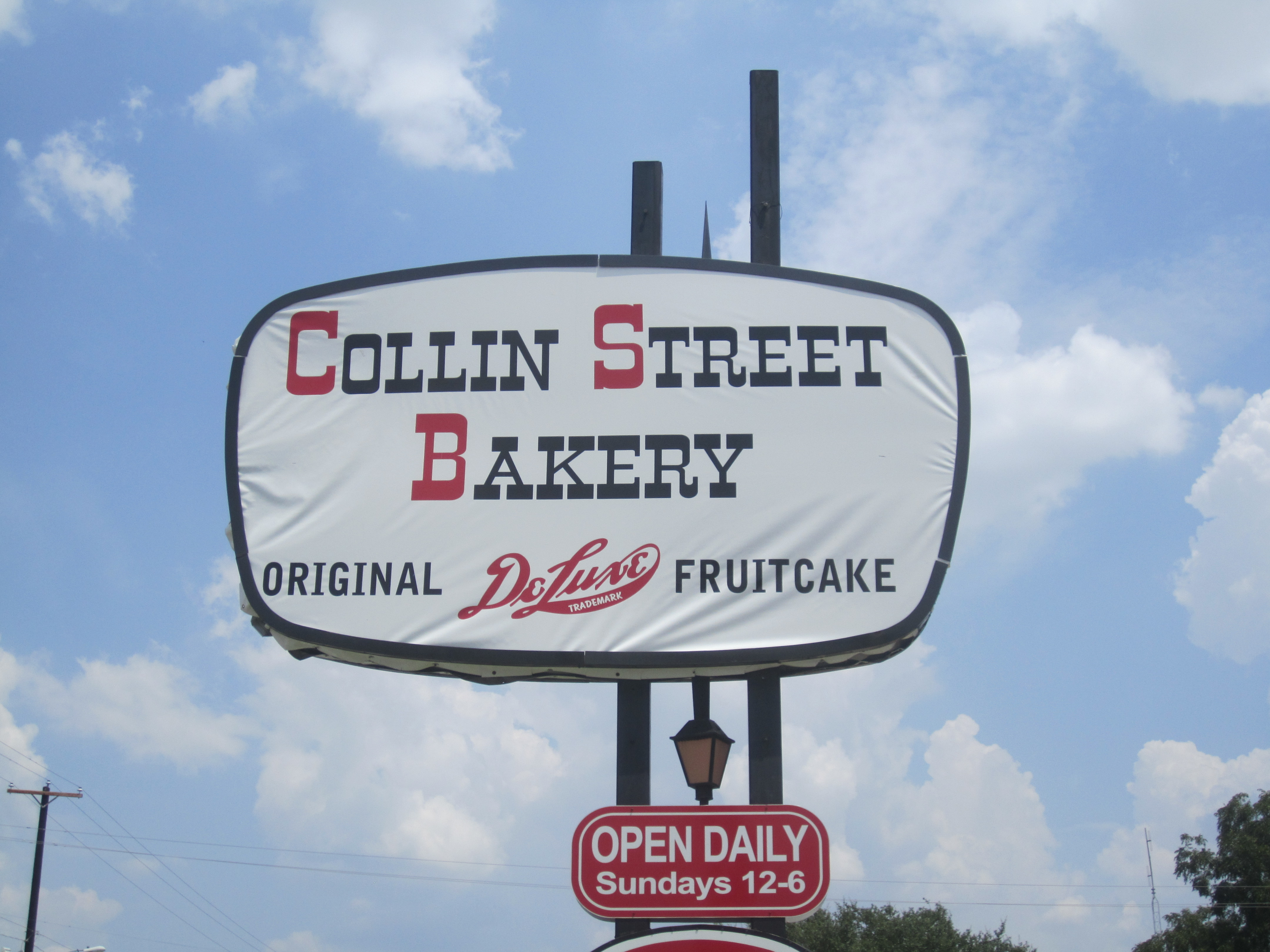 Collin Street Bakery sign I took photo with Canon camera in Corsicana, TX.